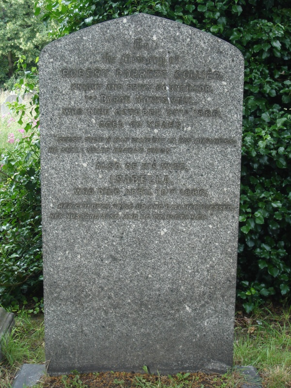 Photograph of Robert Collier funerary monument, Brompton Cemetery, London